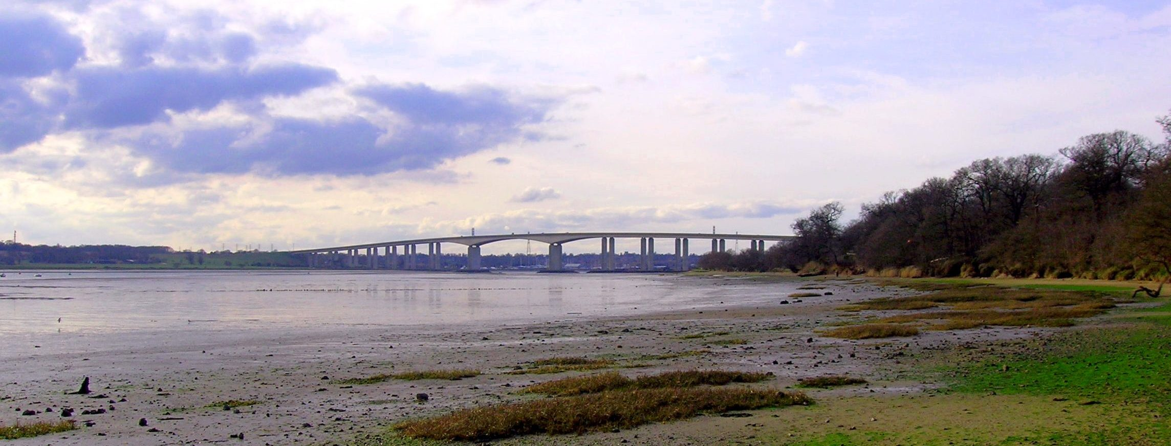 A12 crossing over River Orwell , Ipswich , March 2010